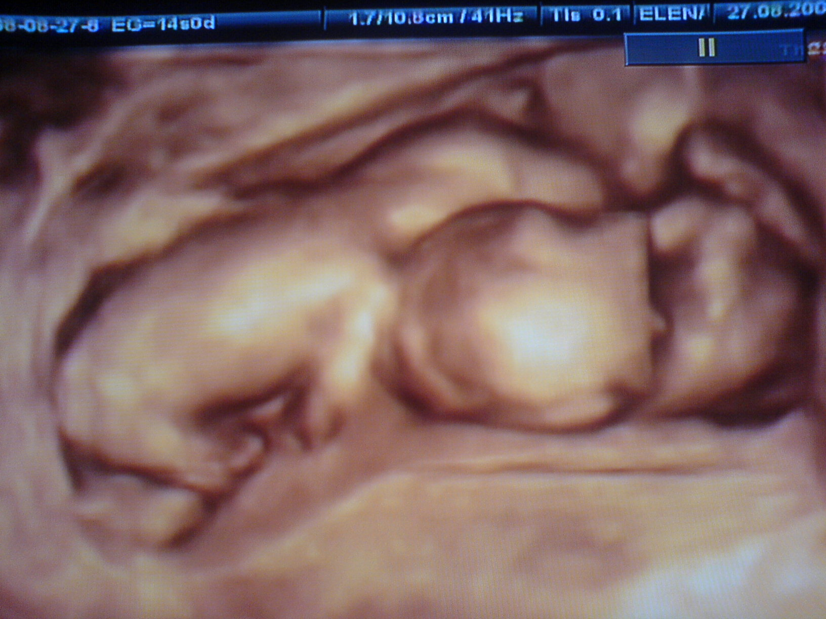 Twins MZ, 14th week